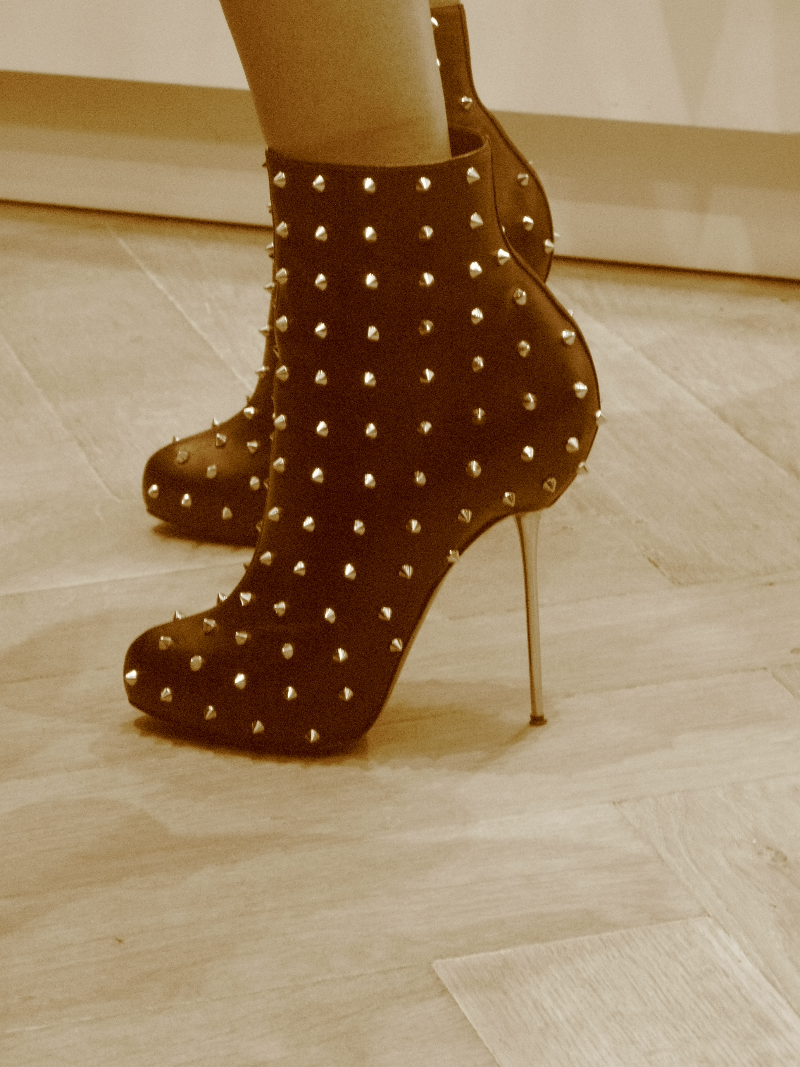 When Nicky says she loves studs (in the Bluefly commercial) she means it!